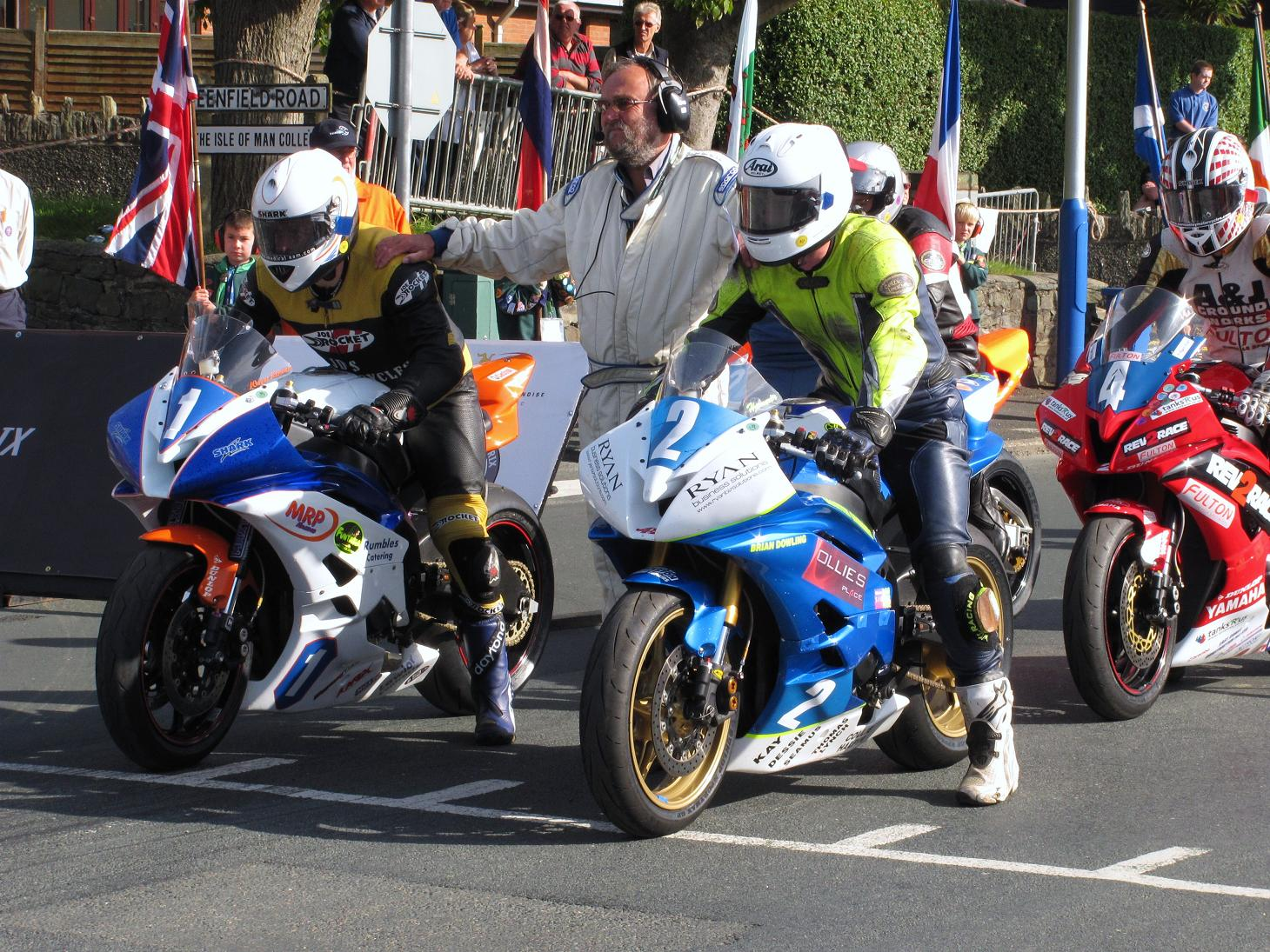 Manx Grand Prix 2010